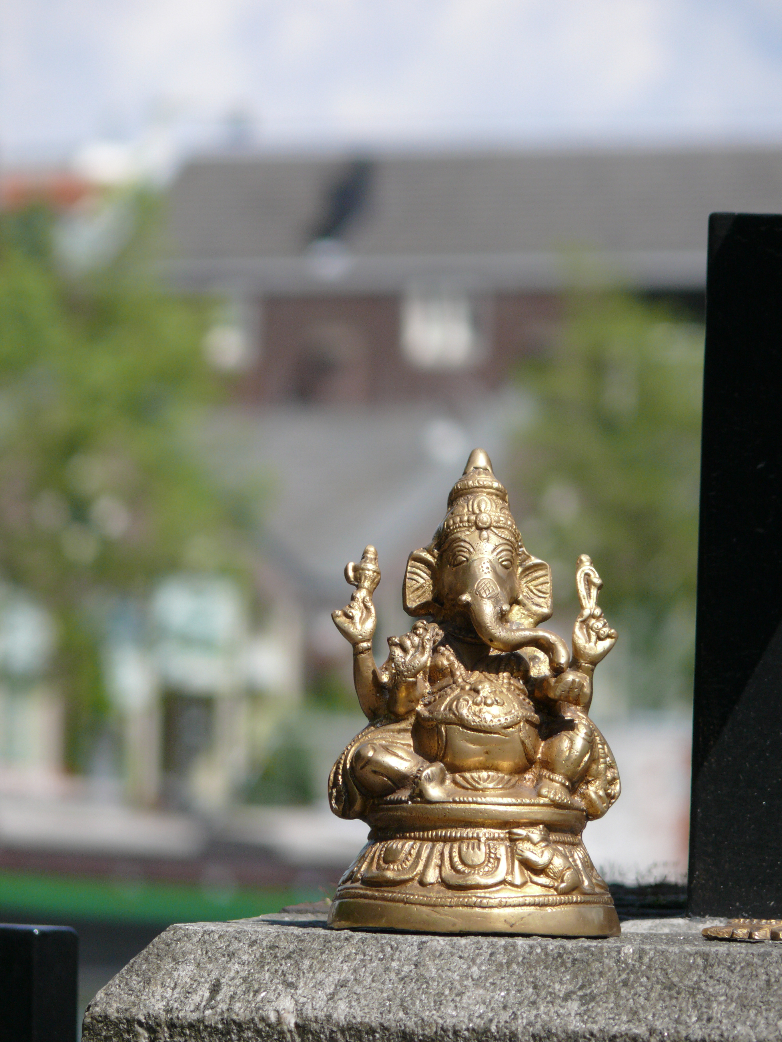 A statue of Ganesha on the parapet of a canal bridge in Amsterdam.